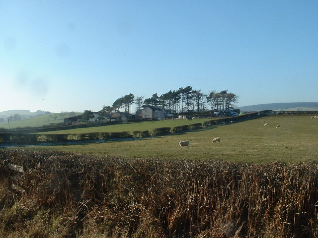 Cae Segwen Farm, near Clocaenog.